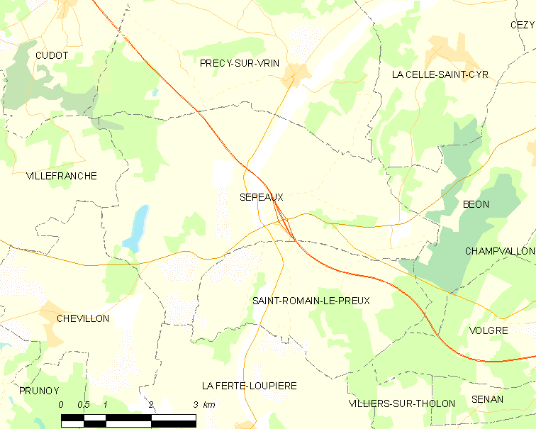 Map of French municipality Sépeaux